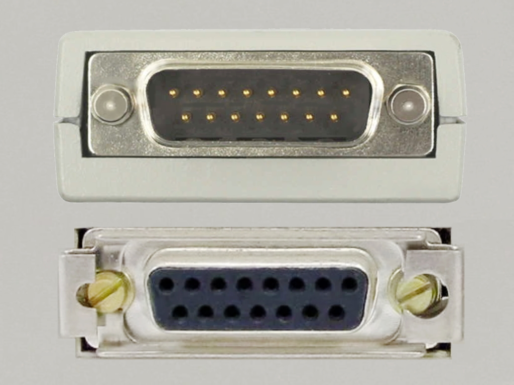 Attachment Unit Interface